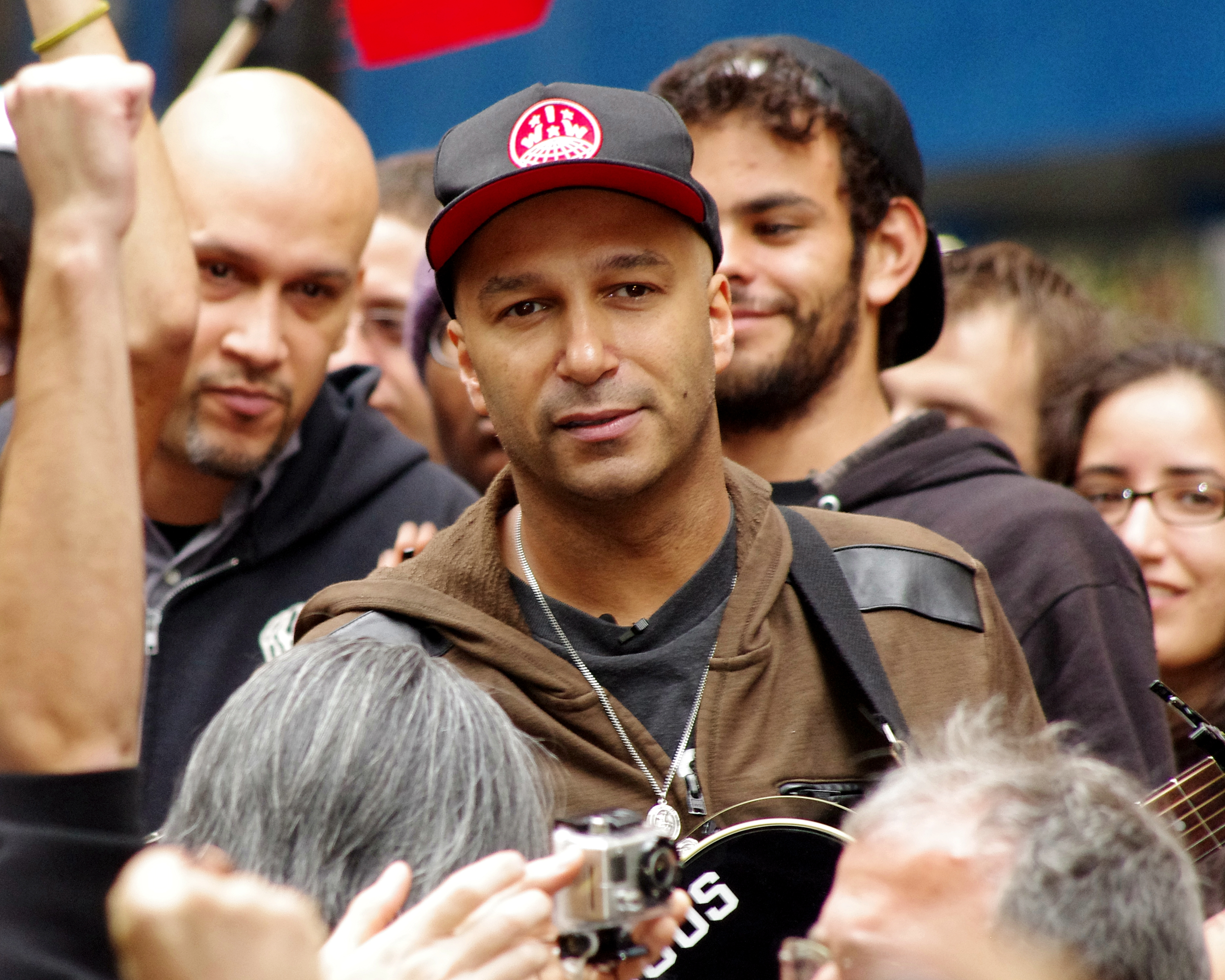 Rage Against the Machine guitarist Tom Morello playing a set on Day 28 of Occupy Wall Street in New York.